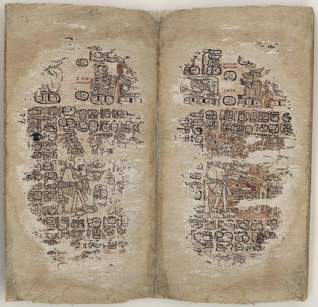 Pages 4-5 of the Paris Codex, a Postclassic Maya book.